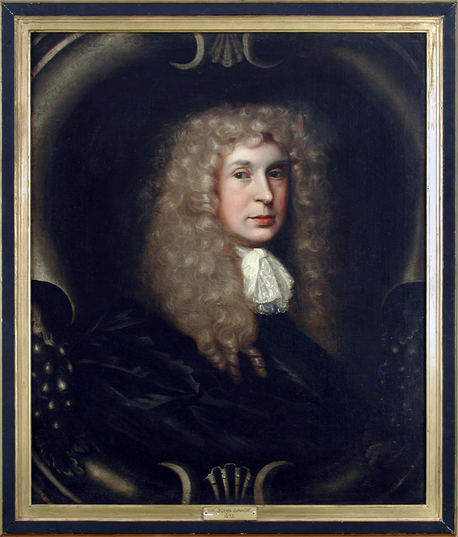 Self portrait by Sir John Gawdy, 2nd Baronet (4 October 1639 –1699) portrait miniaturist, painted 1675.